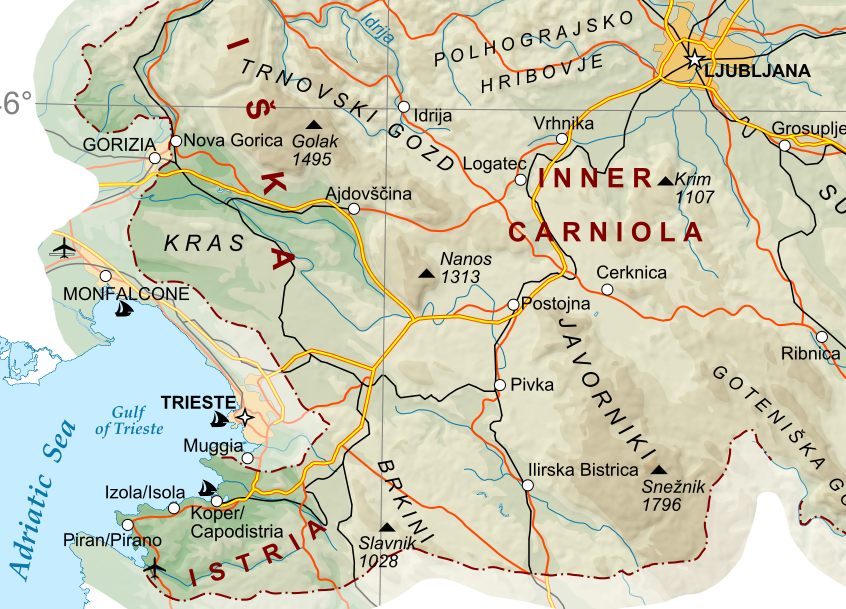 Western Slovenia